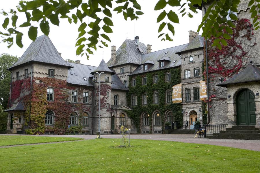 The Alnarp Castle was erected in 1862, in French Renaissance style. Today the castle houses offices and meeting rooms used by the Swedish University of Agricultural Sciences (SLU). Photo by Jenny Svennås-Gillner, SLU